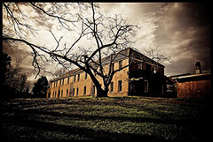 The grounds of Kingseat Hospital, considered to be the most haunted location in New Zealand and location of New Zealand attraction "Spookers". Taken in 2008.